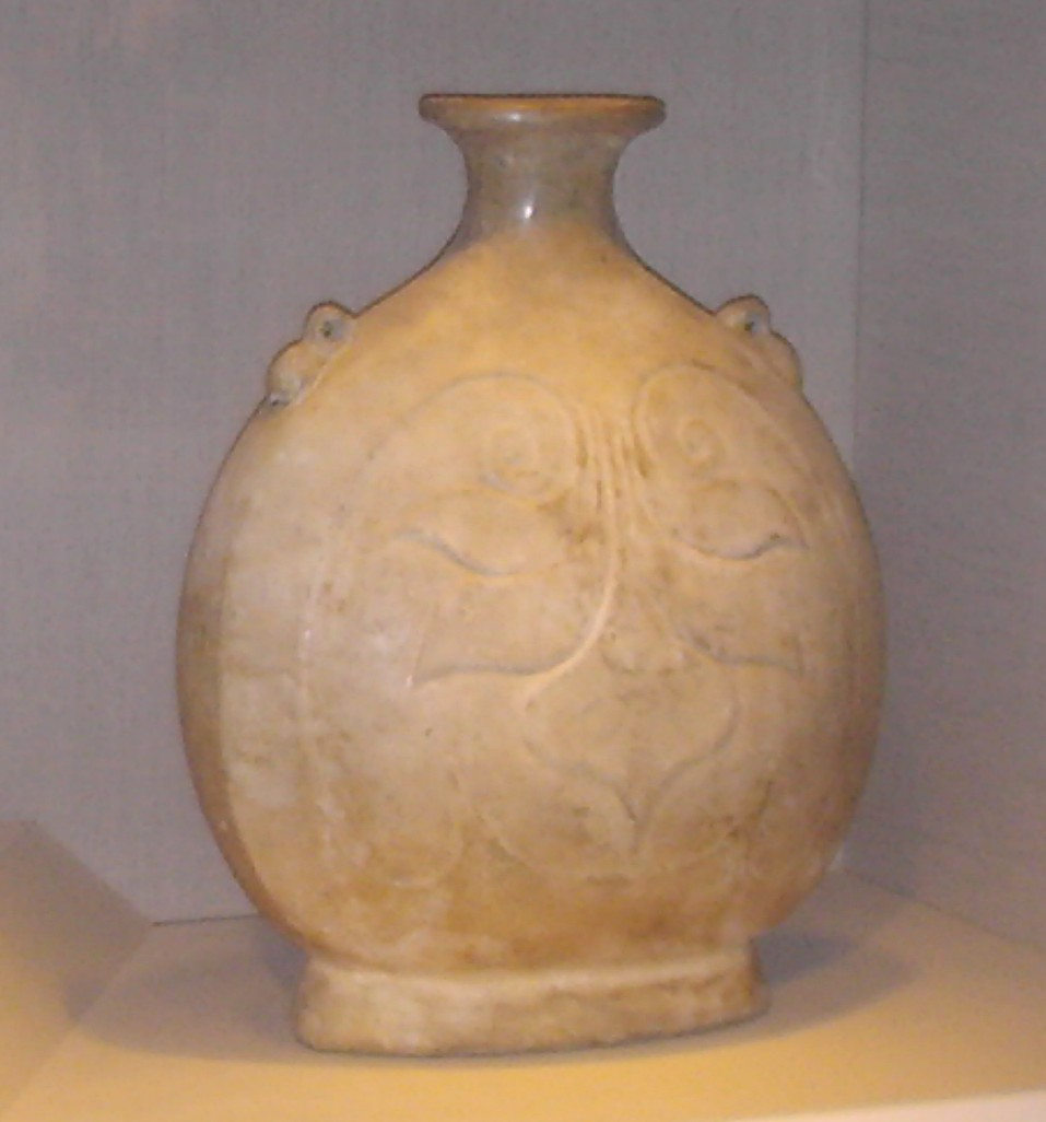 A Chinese stoneware pilgrim flask with transparent glaze from the era of the Sui Dynasty (581-618 AD). From the Freer and Sackler Galleries of Washington D.C. Author: User:PericlesofAthens Date: August 3, 2007